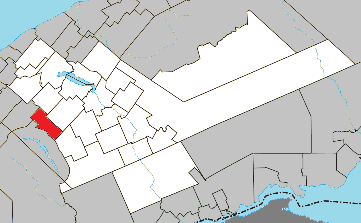 Location of Lac-Alfred, Quebec within La Matapédia Regional County Municipality.